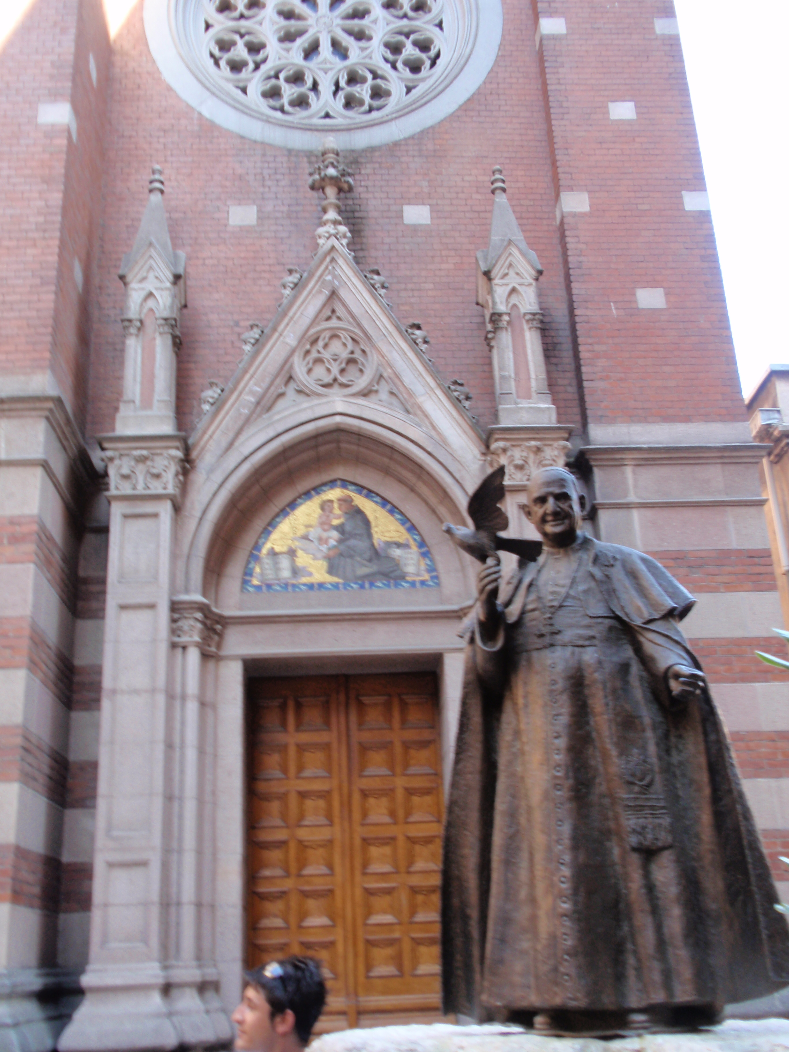 St. Anthony of Padua Church